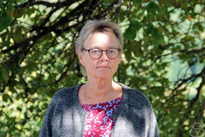 Mathematician Berit Stensønes at the Workshop on Geometric Methods of Complex Analysis, Mathematical Research Institute of Oberwolfach, 2018